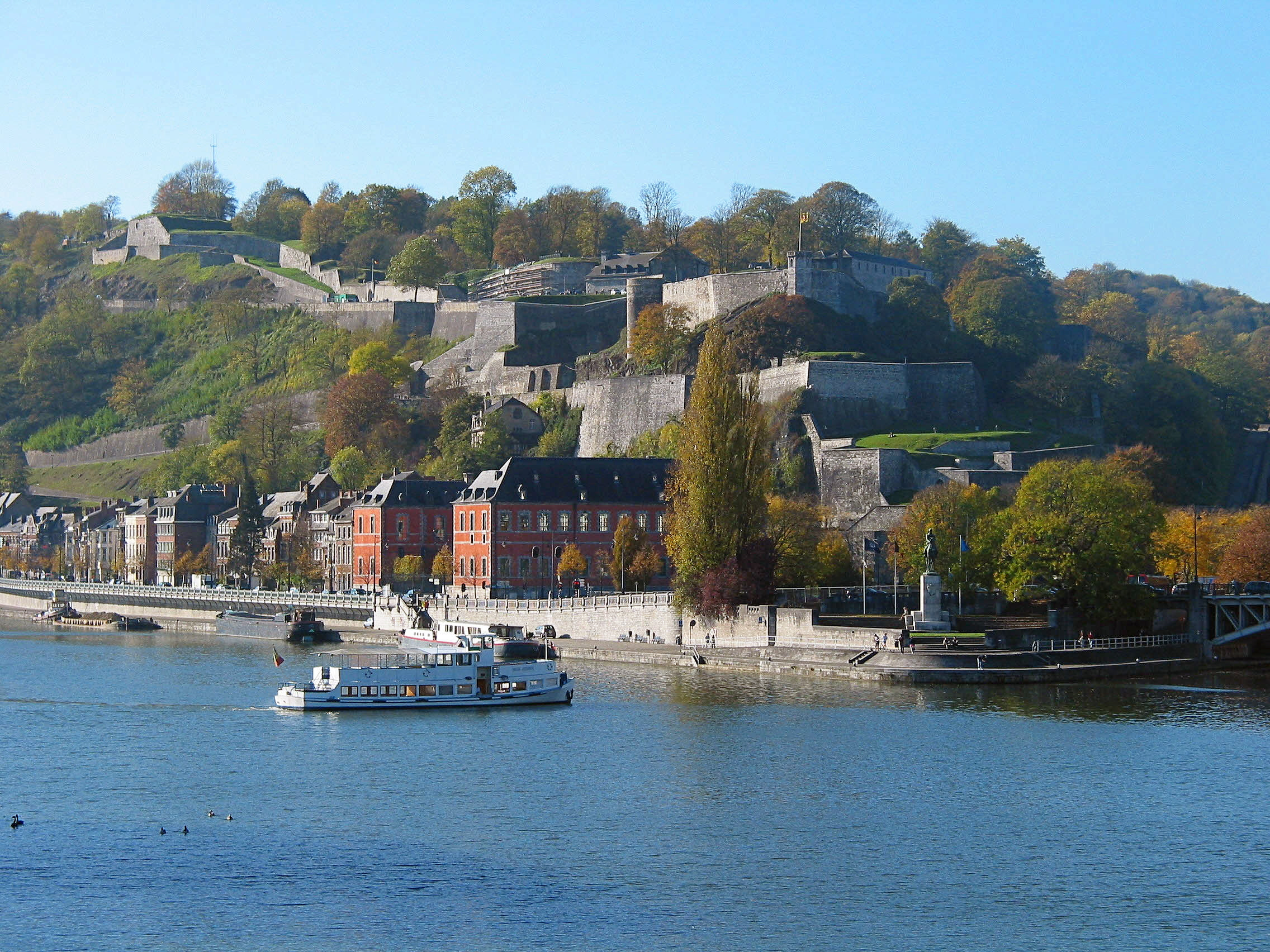 Namur (Belgium), the Meuse river, the Walloon Parliament and the citadel.